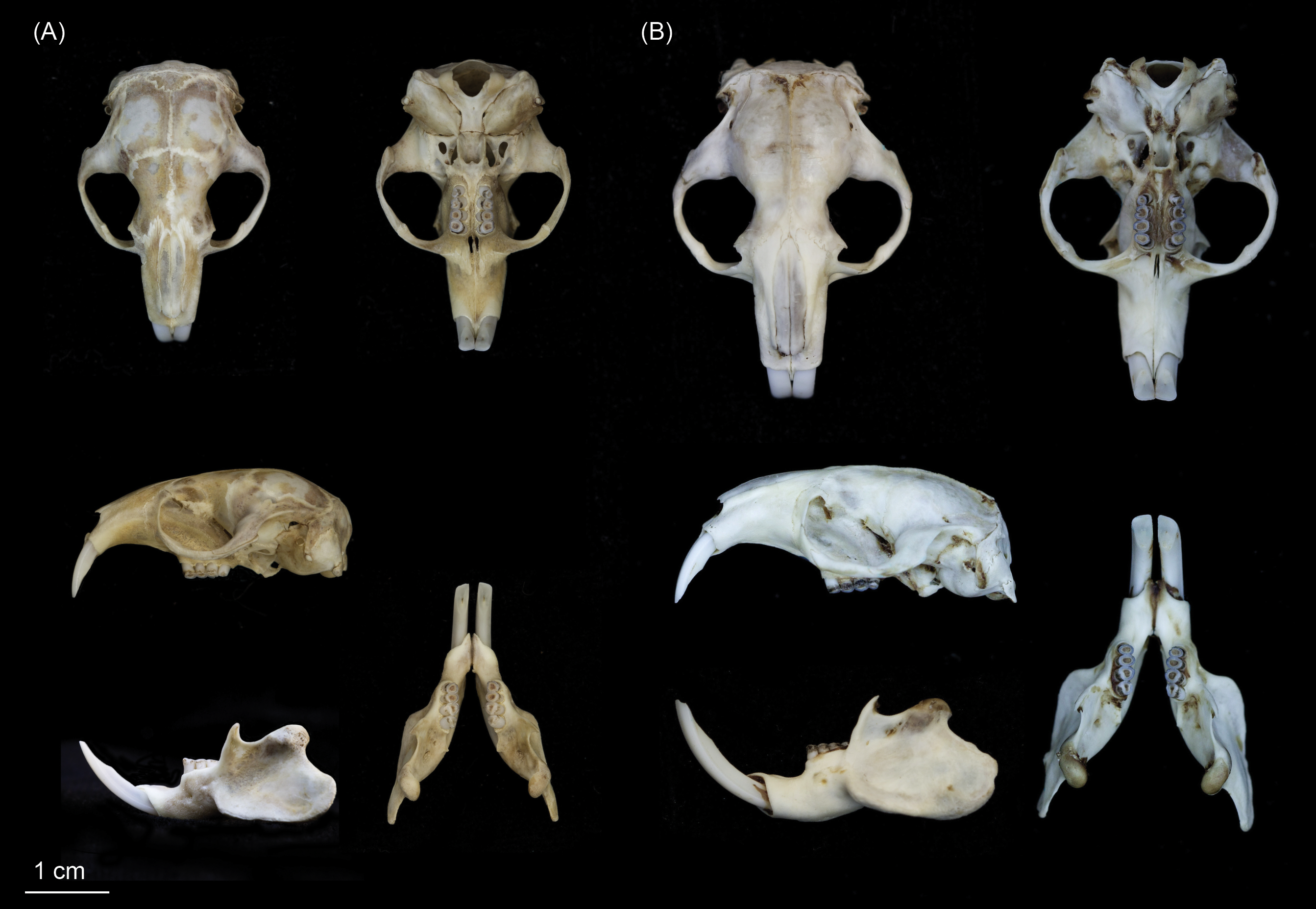 Skulls of (A) Fukomys livingstoni sp. nov. (5208/NHMUK 2015.42; holotype), and (B) Fukomys hanangensis sp. nov. (4334/NHMUK 2015.41; paratype) in dorsal, ventral and lateral view, and mandible in lateral and dorsal view.